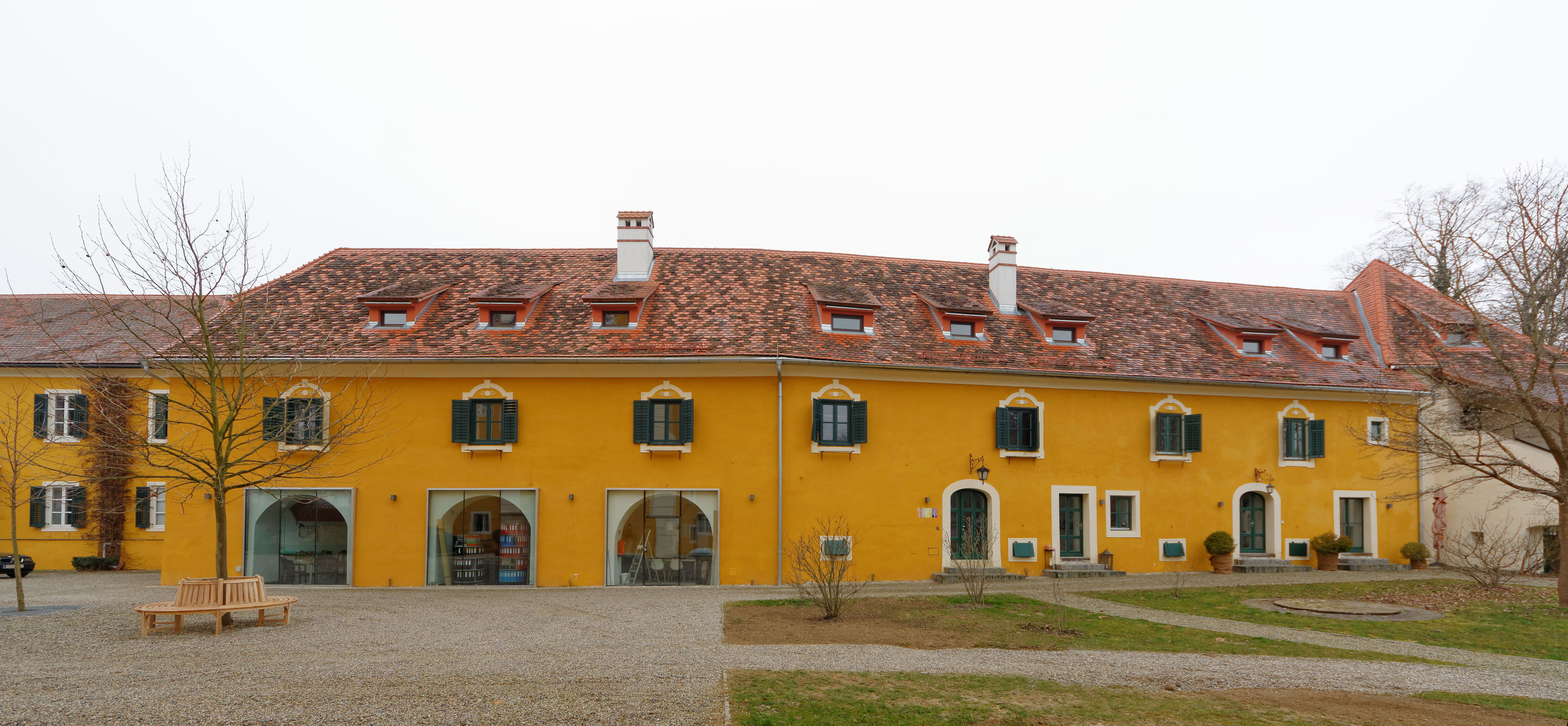 Residential building near Eybesfeld palace in Jöss, Municipality Lang, Styria, Austria